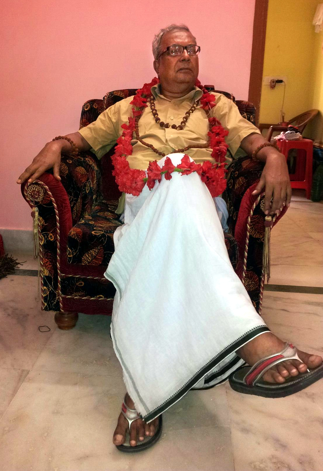 photograph of His Holiness Sri Sri Bhagavan- the founder and core of International Vedanta Society